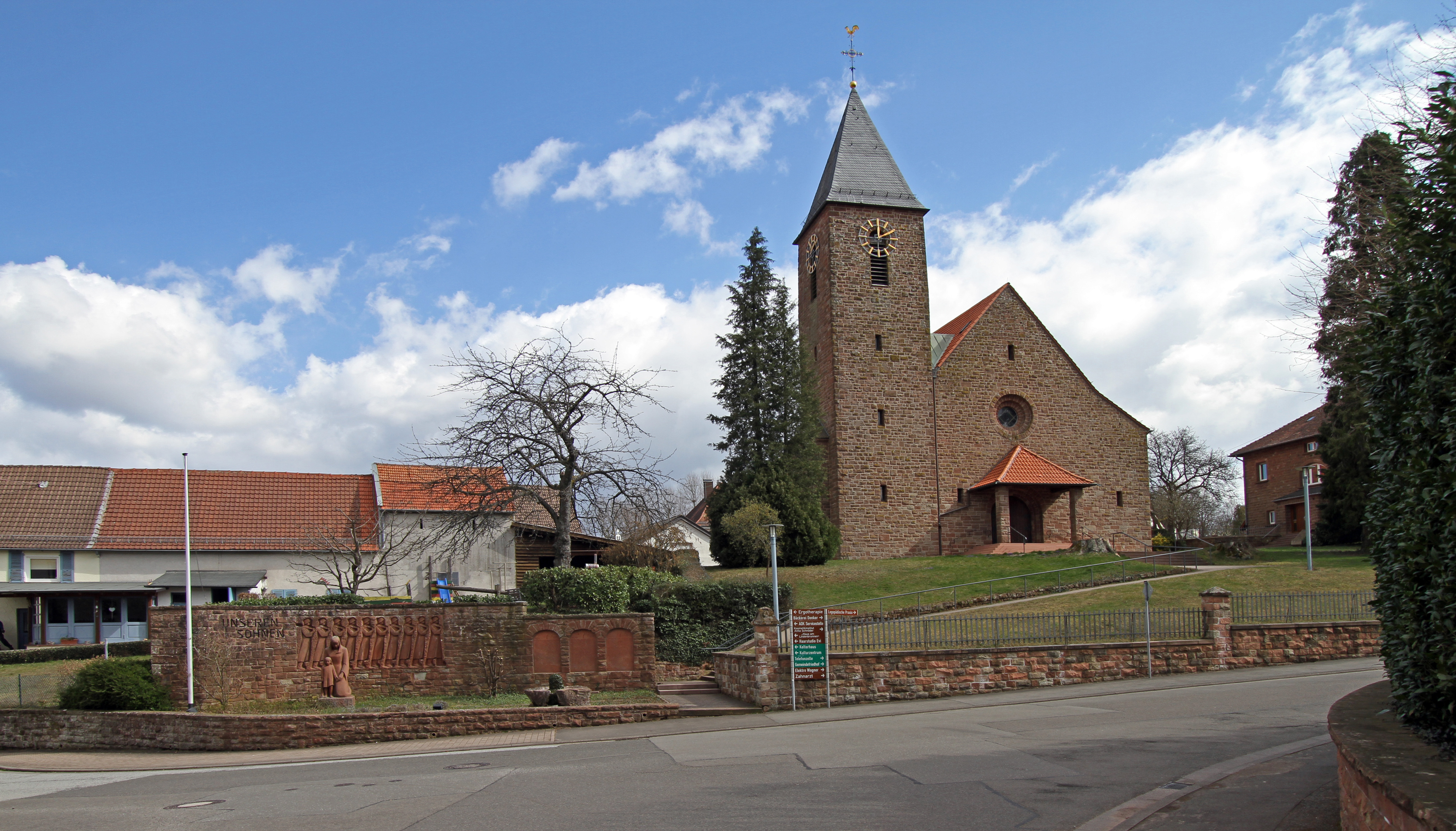 Church of Saint Sebastian in Vinningen.